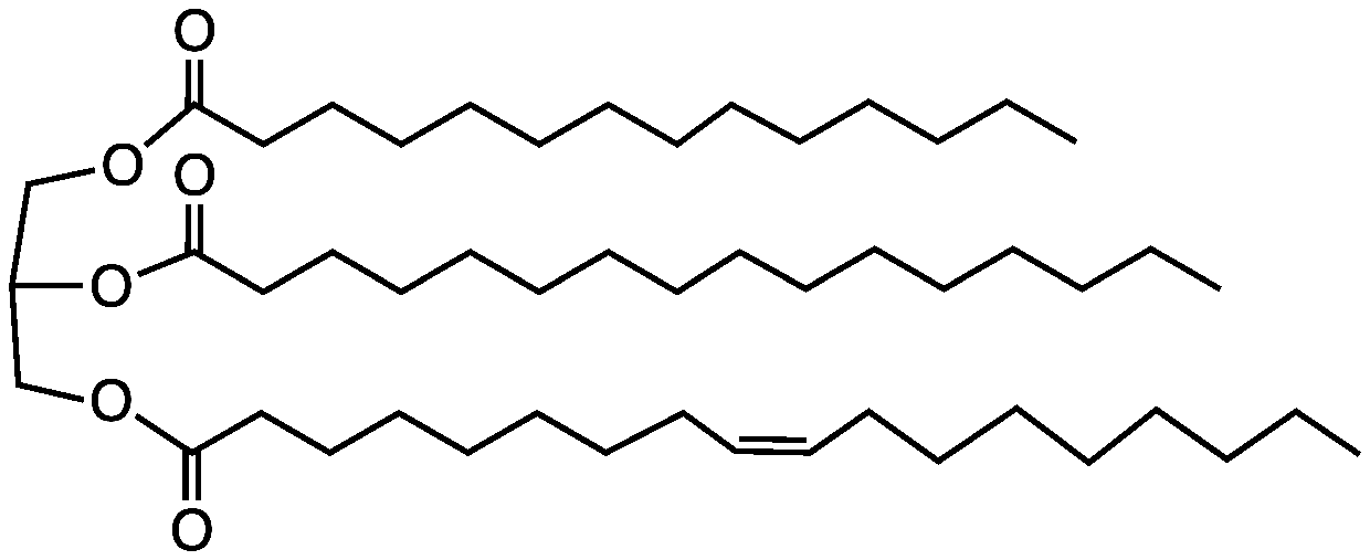 representative component of butter fat